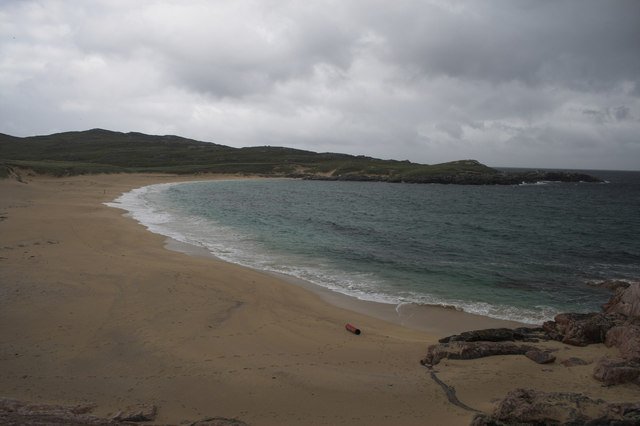 Tràigh a Siar, Taransay West Beach, Taransay - taken from its easternmost end, just within this grid square and looking into the next square (NB 0000).